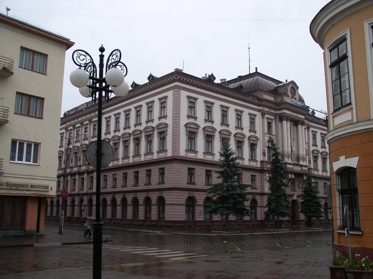 Medical academy. Ivano-Frankivsk, Ukraine.